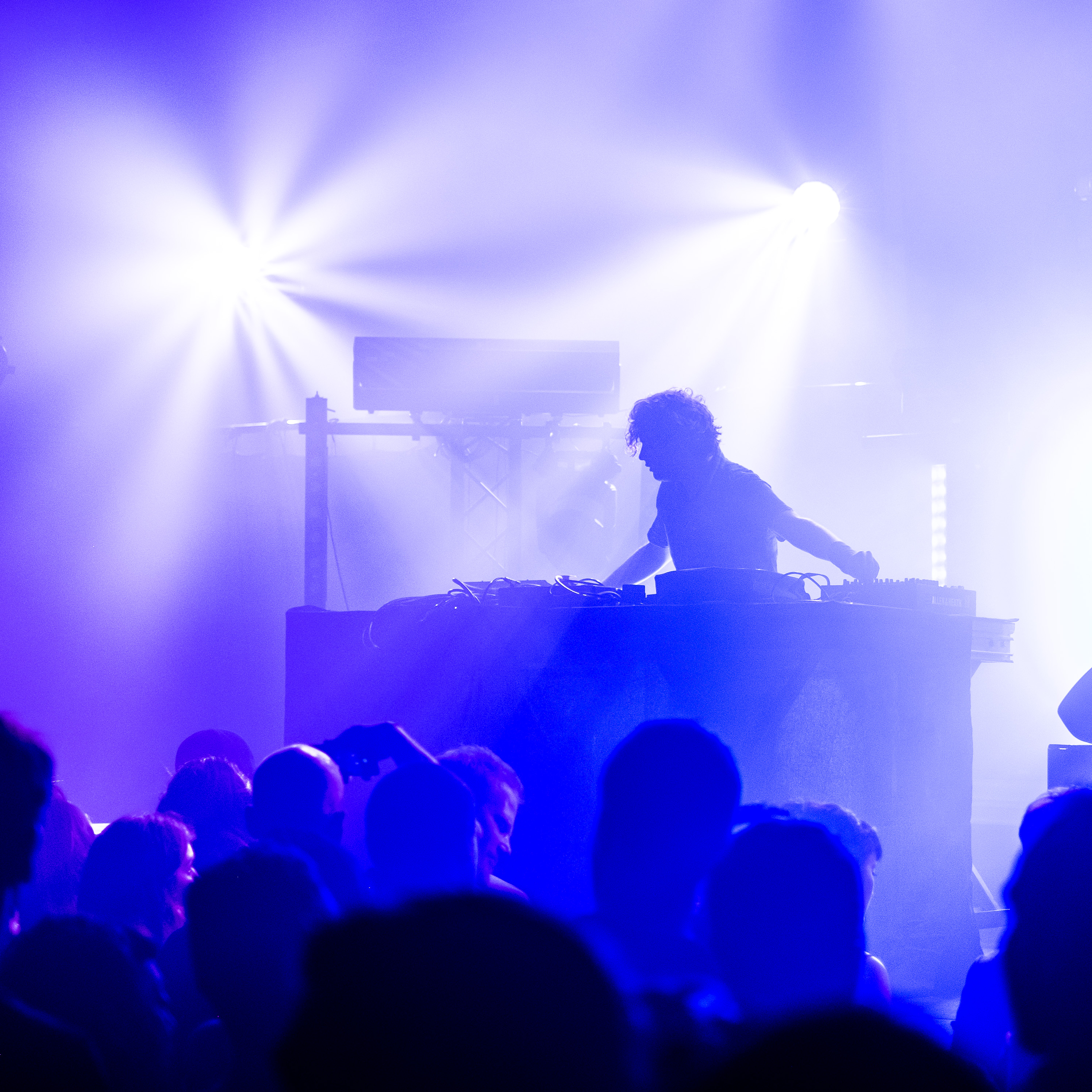 Nathan Fake Performing live at the Gaité Lyrique in Paris